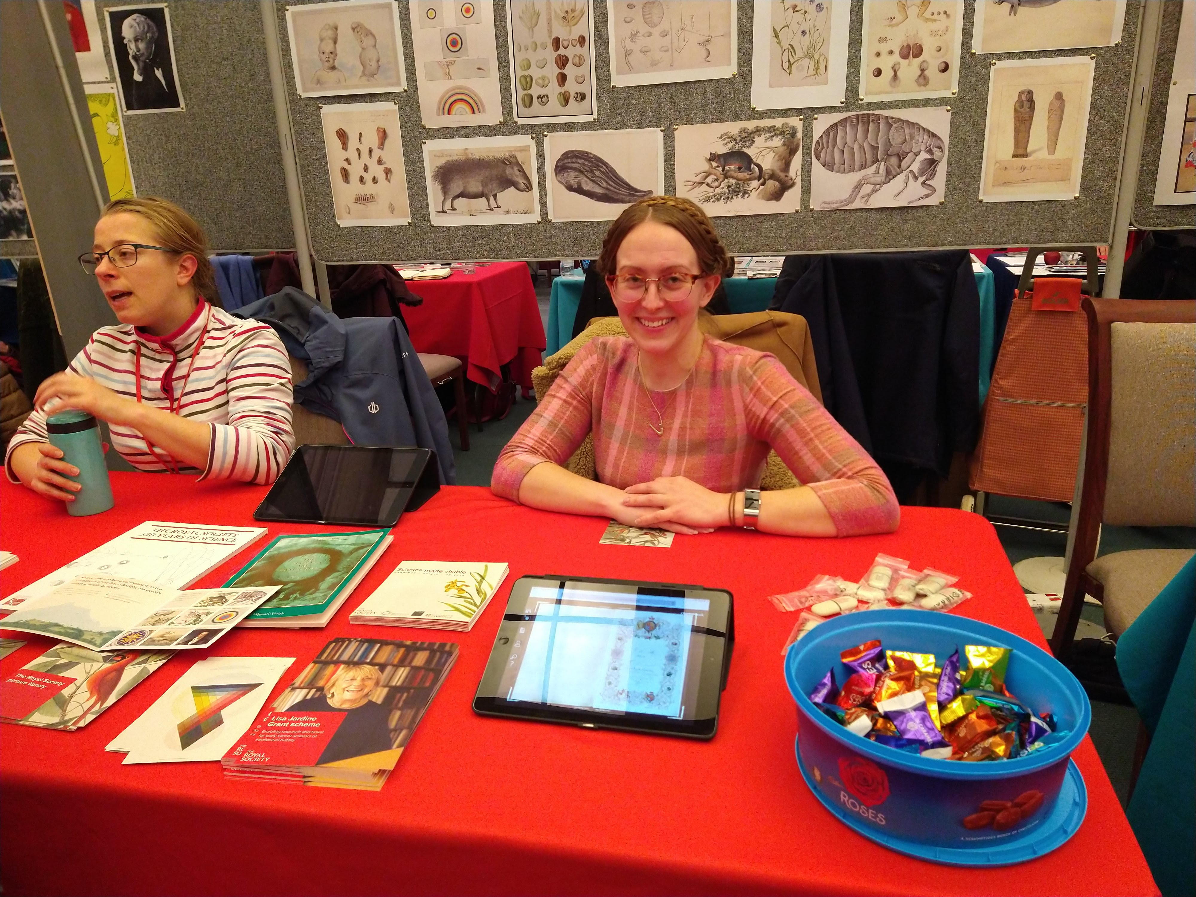 University of London School of Advanced Study History Day 2019